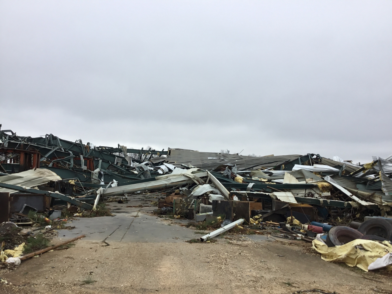 EF3 damage to the Wade Services manufacturing plant near Laurel, Mississippi.